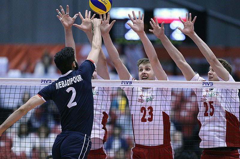 Iran men's national volleyball team VS Poland men's national volleyball team at the Men’s World Olympic Qualification Tournament in Tokyo, Japan. Iran defeated Poland.